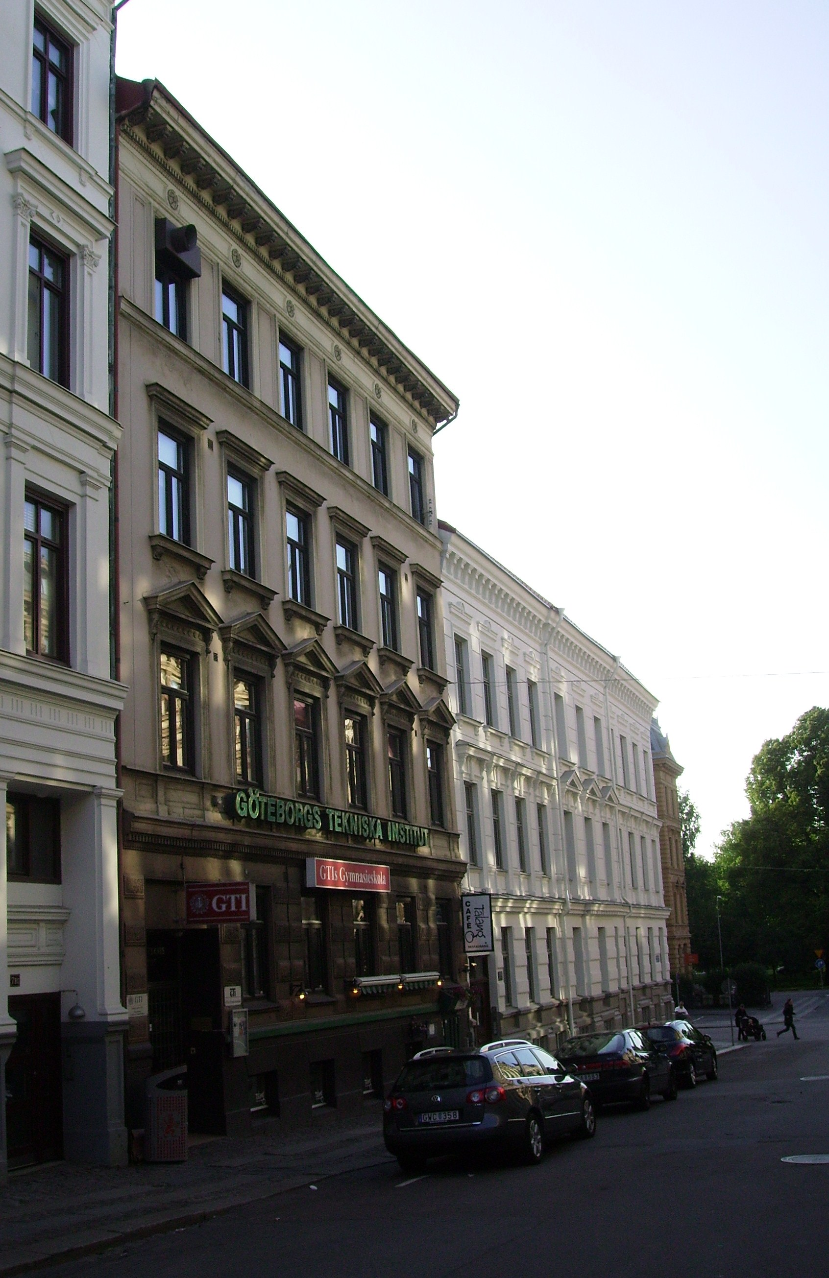 Picture of Göteborgs tekniska institut, school in Gothenburg